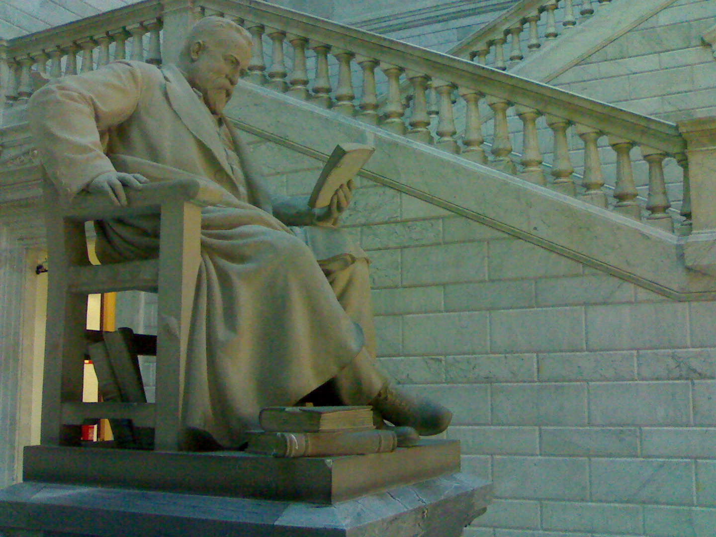 Menéndez y Pelayo with a book at the National Library of Spain, Madrid.